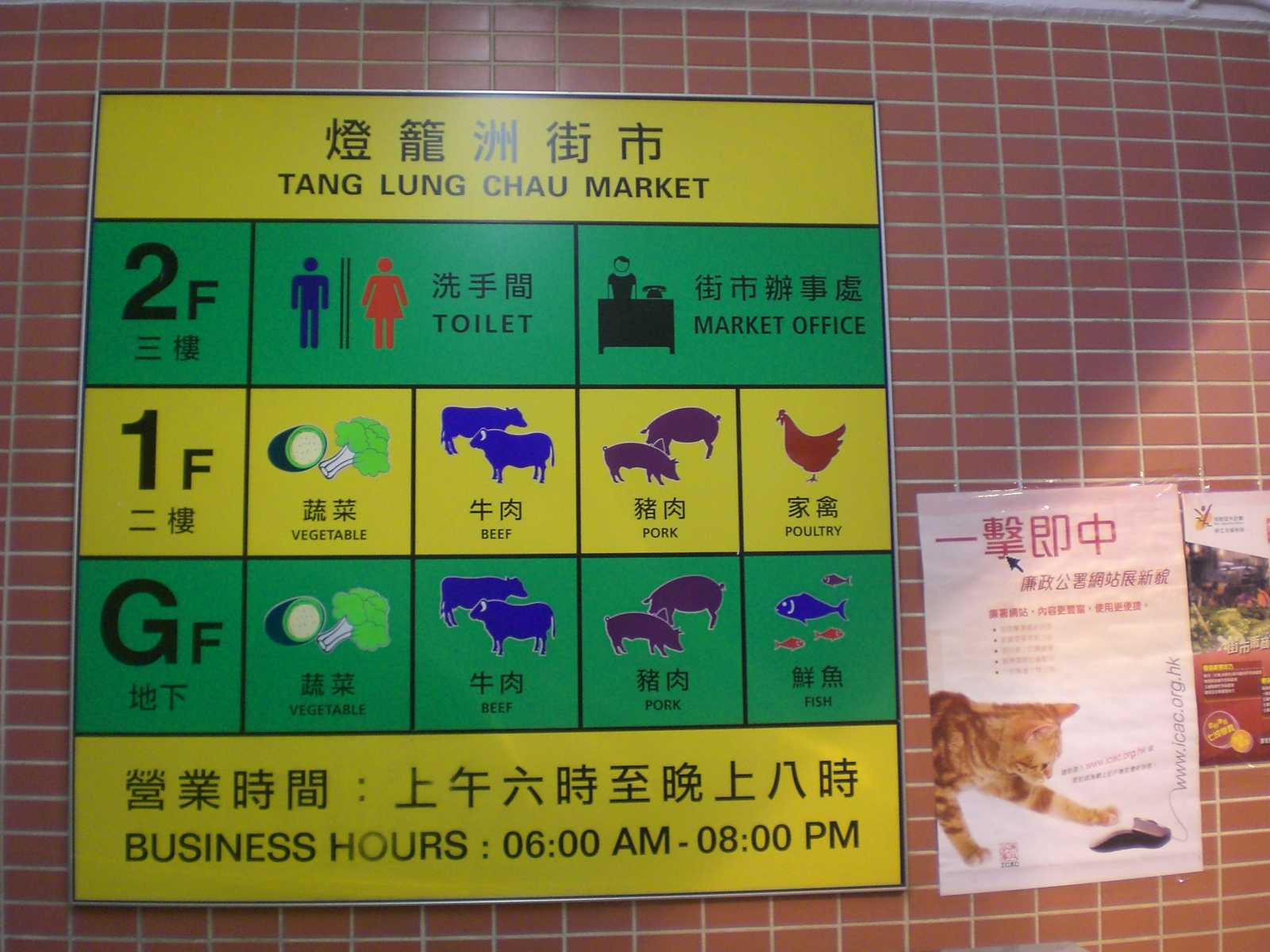 燈籠洲街市渣甸坊, A market is established at Jardine's Crescent, Causeway Bay, Hong Kong